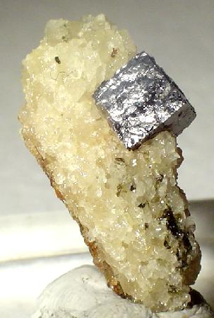 Latrappite Locality: St Lawrence Columbium Mine, Oka complex, Oka, Deux-Montagnes RCM, Laurentides, Québec, Canada (Locality at ) A SUPERB, lustrous 6 mm cube of latrappite (unanalysed)on starkly contrasting white matrix from Oka, Quebec, Canada. Latrappite is a rare Perovskite found only at Oka. 2.5 x 1.7 x 1.1 cm